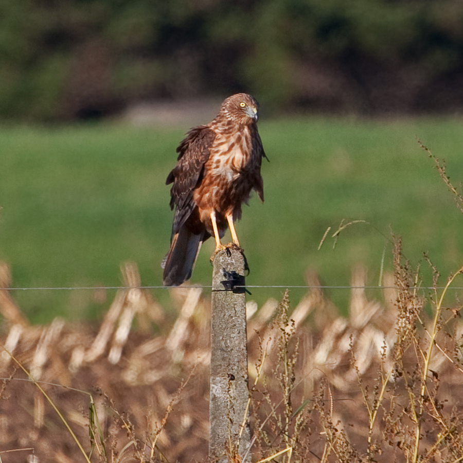 This Kahu or Swamp Harrier (Circus approximans) was sitting on a distant fencepost recovering from a vicious attack by a large group of Australian Magpies (Cracticus tibicen). Okato, Taranaki, New Zealand.